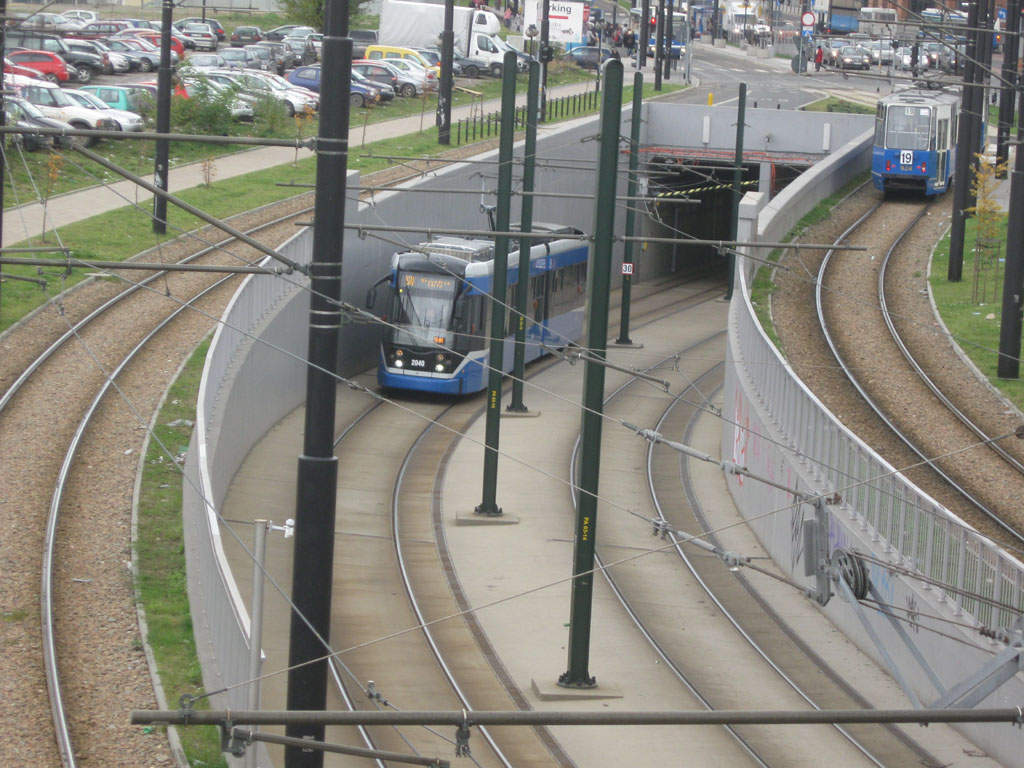 Tram in Kraków, Poland